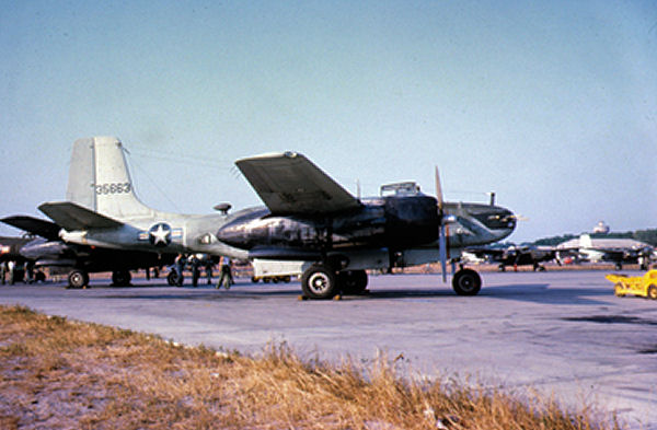 U.S. Air Force B-26B/Cs on the flightine of Bien Hoa Air Base, South Vietnam, in 1962. The aircraft belonged to the 4400th Combat Crew Training Squadron, als part of Operation Farm Gate to bolster the strength of the South Vietnamese Air Force (VNAF). In April of 1962, the 4400th CCTS was renamed the 1st Air Commando Group. By April of 1963, "Farm Gate" strength was 12 B-26Bs, 2 RB-26Ls (equipped for night operations) and 13 North American T-28B Trojans. Four more B-26s were received in mid-1963. All B-26s were officially listed as "RB-26" reconnaissance planes. On 8 July 1963 the unit was reformed as the 1st Air Commando Squadron (Composite) of the VNAF 34th Tactical Group, and the U.S. insignia was overpainted by the VNAF insignia. After two crashes because of structural failures in August 1963 and February 1964 all B-26s were grounded and mostly scrapped at Clark Air Base, Phillipines, in 1964.